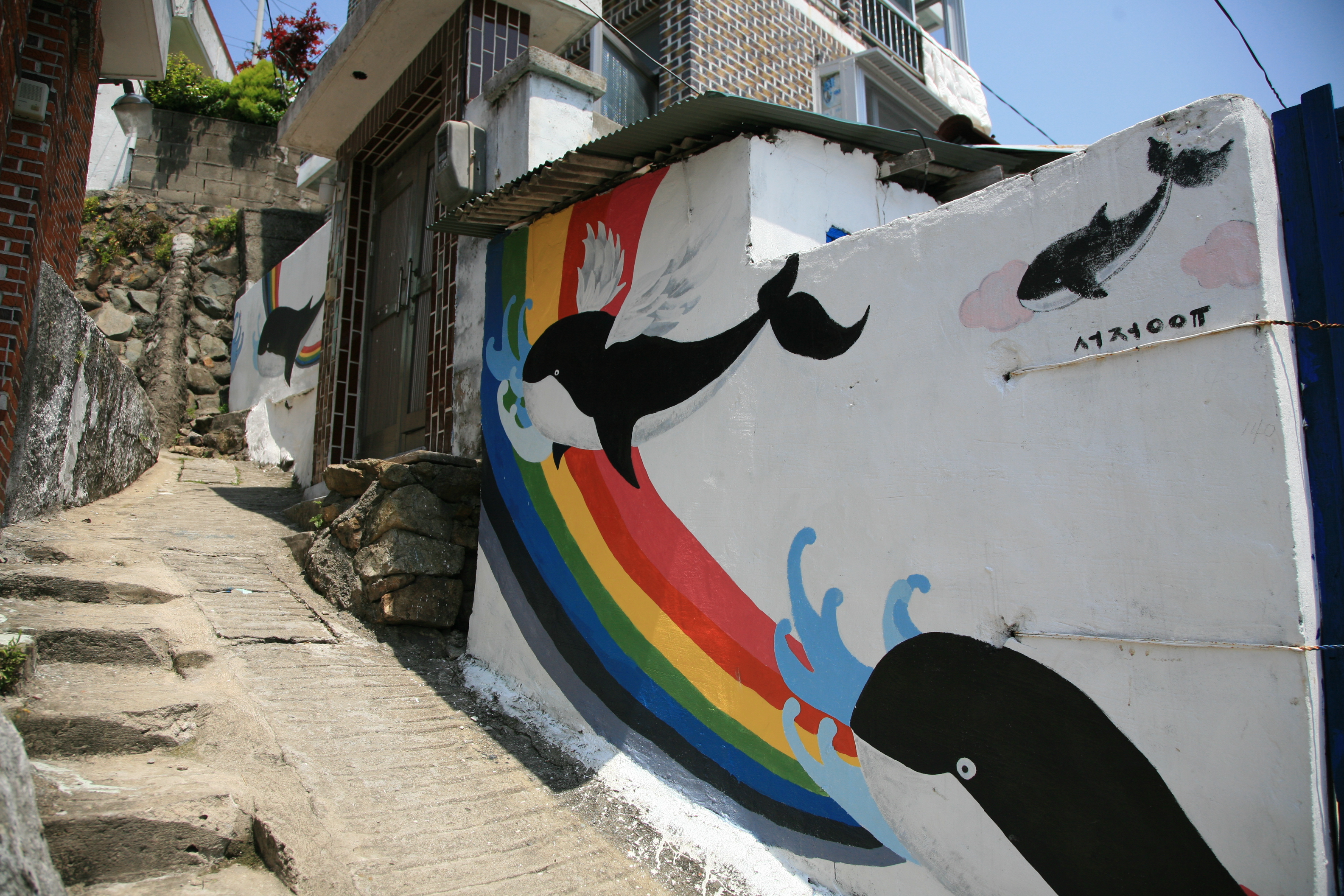 A view of Dongpirang Village in Tongyeong, South Gyeongsang province, South Korea